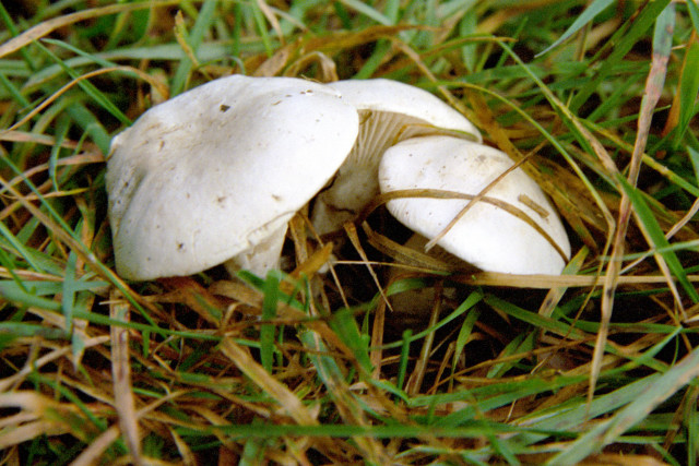 Clitopilus prunulus from Commanster, Belgium. If you think this is a different taxon, please contact James Lindsey.